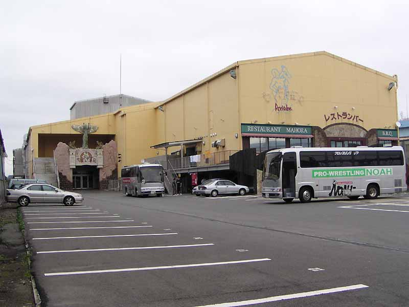 Differ Ariake: a head office and "homeground" of Professional Wrestling NOAH.